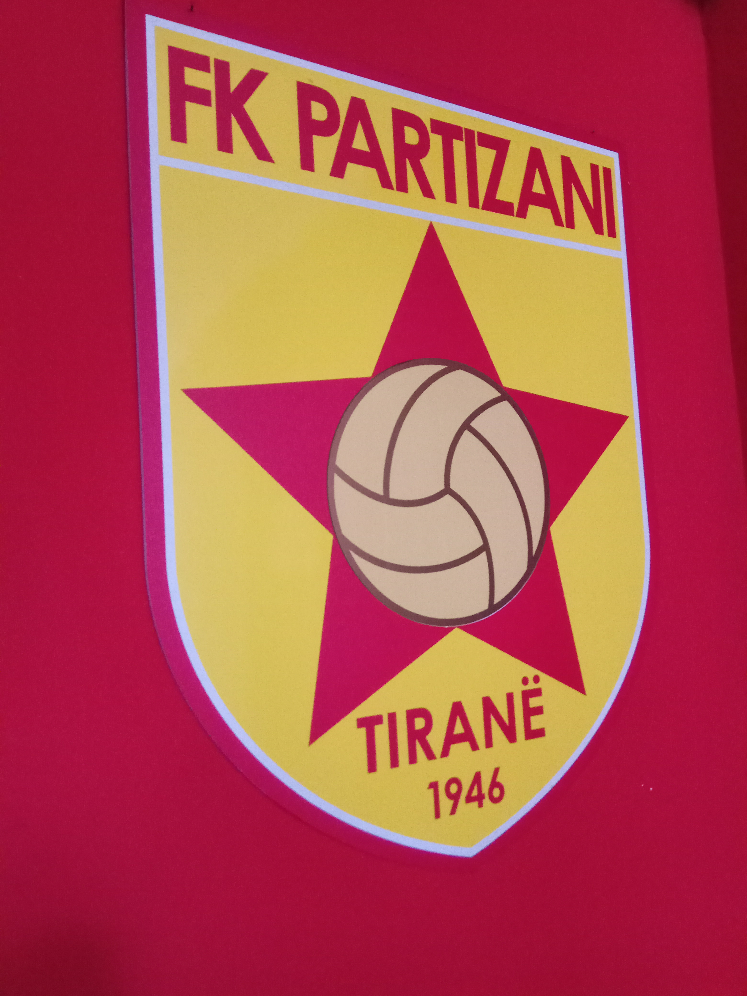 The logo of Football Club Partizani, a local team in Tirana, located outside the administrative offices of the club in Tirana, Albania.